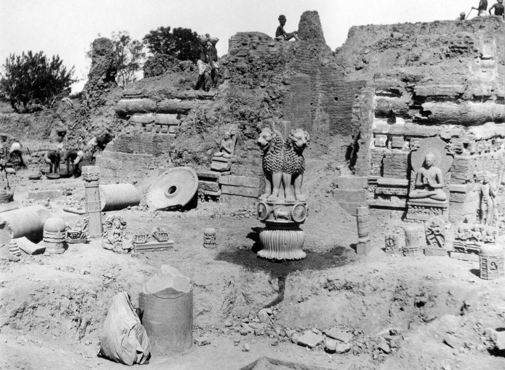 Sarnath Location:Sarnath Museum, India.